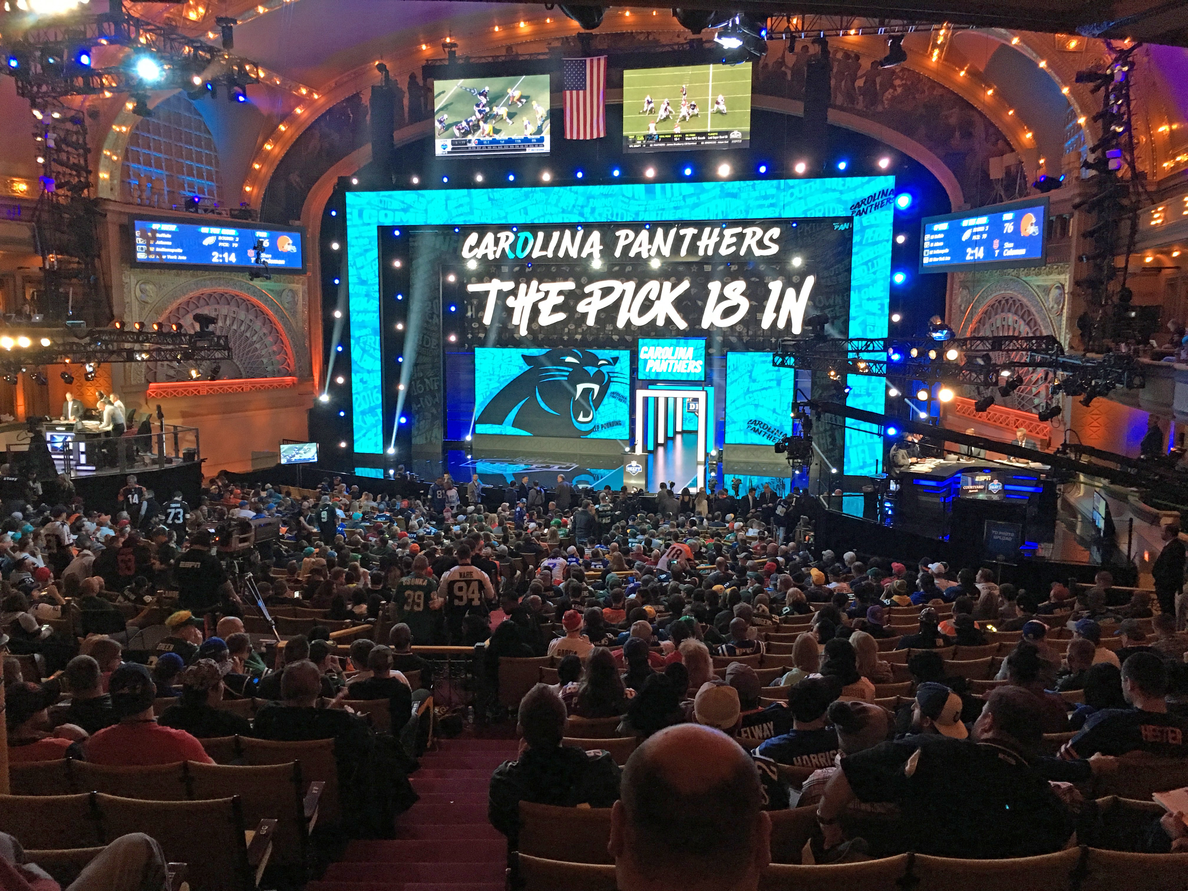 NFL Draft, Chicago 2016